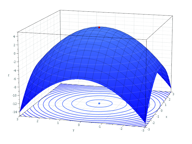 The graph of a 3D paraboloid given by f(x,y) = -(x²+y²)+4. Shown is the global maximum of the surface, at (0,0,4). Selfmade with MuPad.